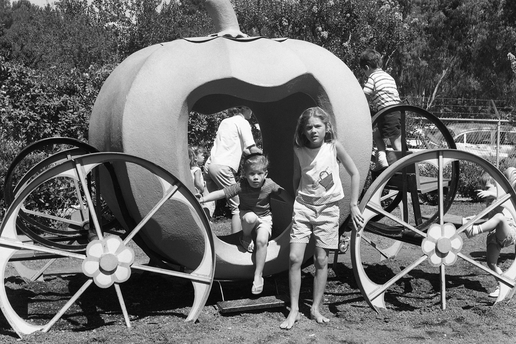 Children leaving a pumpkin ride in William Land Park, Sacramento. Other information Photo by George Garrigues.